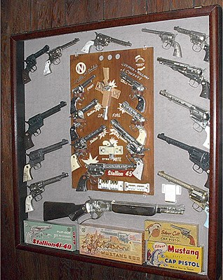 A typical cap gun display.